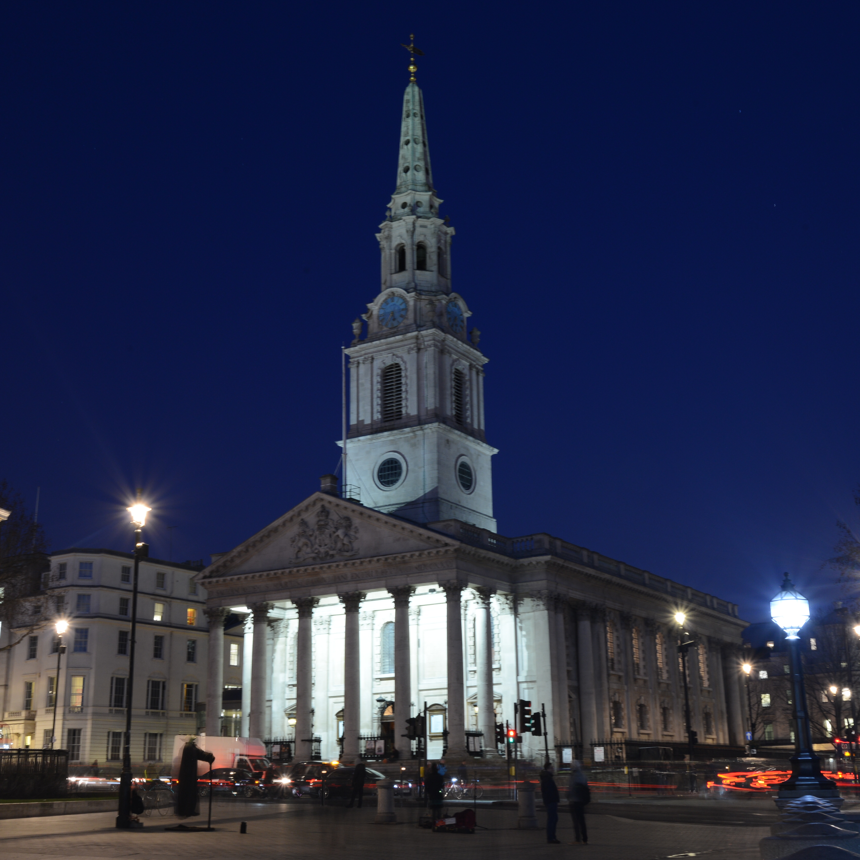 St. Martins-in-the-Fields Church